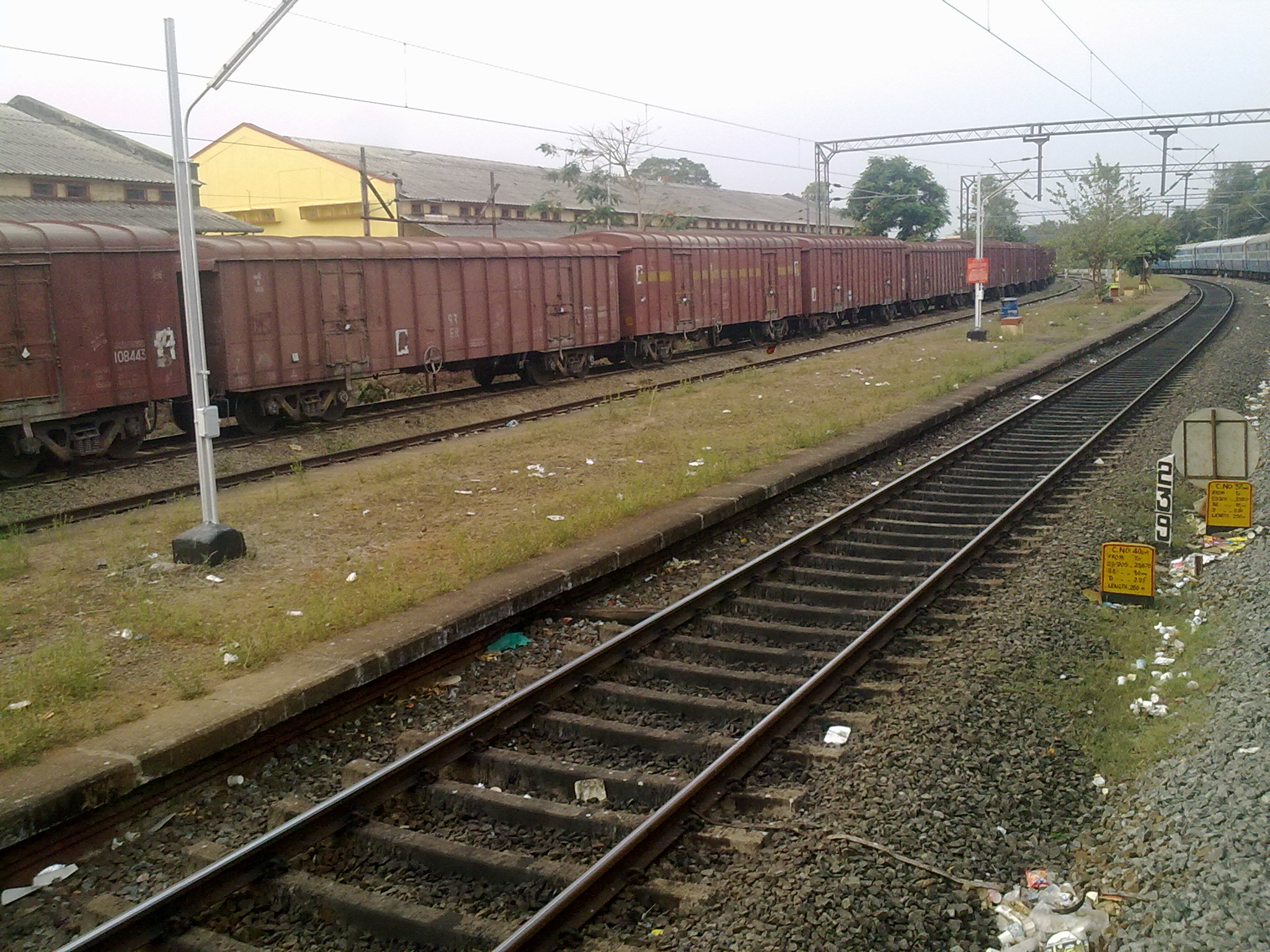 Mulankunnathukavu railway station in Thrissur city